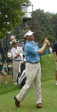 I took this photo at the 2005 PGA Championship